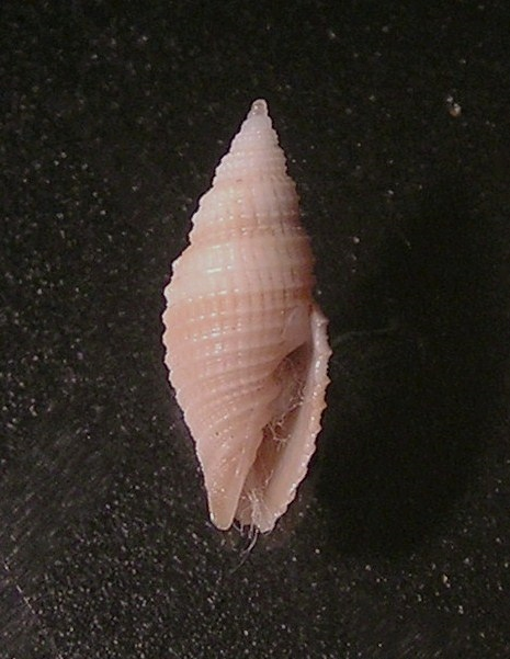 Scabricola padangensis J. Thiele, 1925, a sea snail from the family Mitridae; Philippines Category:Mitridae